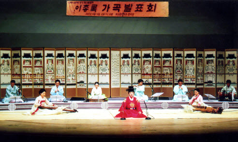 Lee Jong-rok, South Gyeongsang Gagok singer.